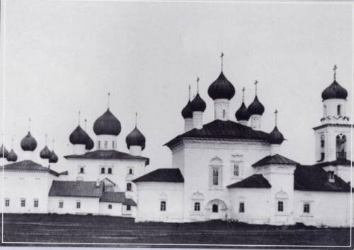 This is old foto of Kargopol Annunciation (ore Market) square of Kargopol town.